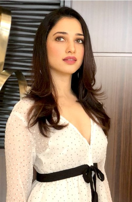 Indian film actress Tamannaah at an event in Cochin, July 2018 Cropped from the original